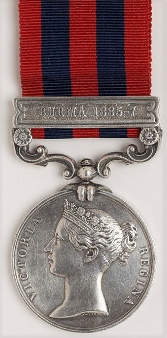 British campaign medal for small wars on India's frontiers between 1854 and 1894.